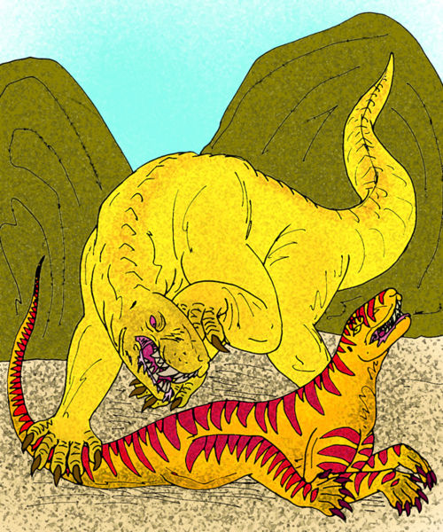 My reconstruction of the gorgonopsid therapsid Gorgonops whaitsi attacking the dinocephalian theraspid Titanosuchus ferox, in Permian South Africa. (c) Stanton F. Fink